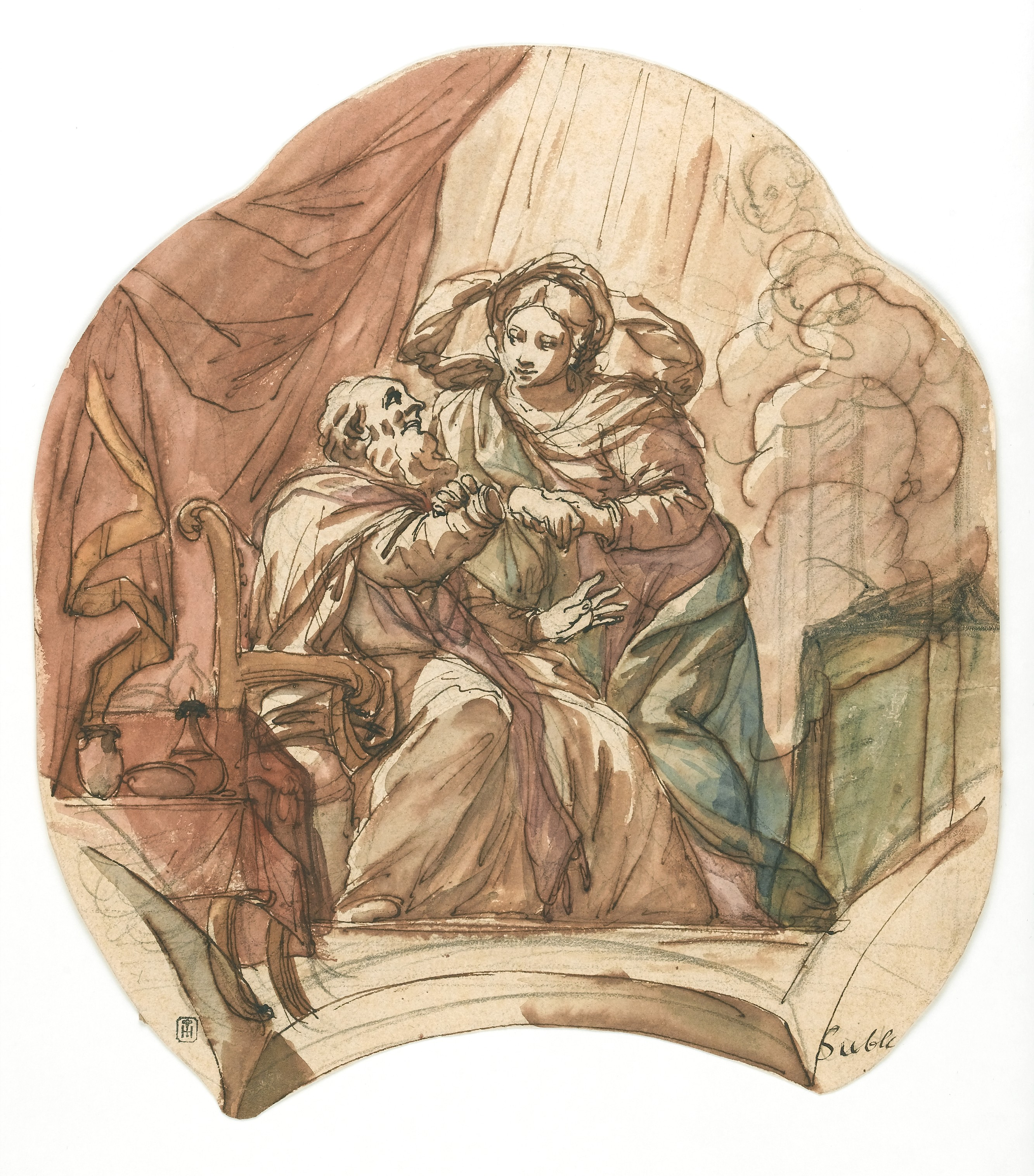 The dream of Saint John Damascene: the Virgin attaches his severed right hand. Iconographic Collections Keywords: John Damascene; Amputation; Virgin Mary; Vision; Dream; Dreams